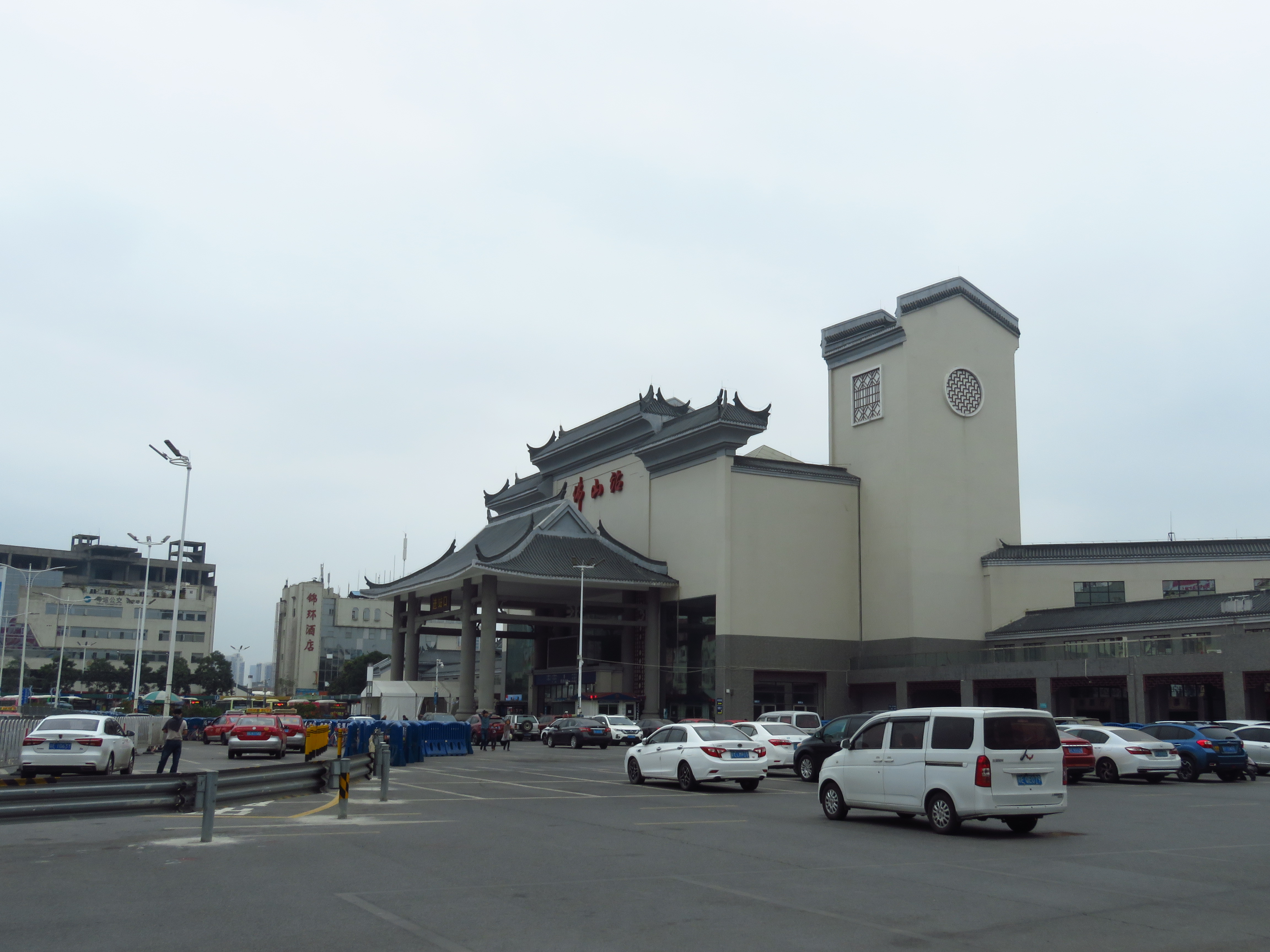 China National Railway Guangzhou-Maoming Railway Foshan Station building